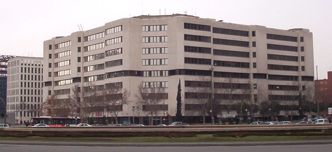 Courthouse at Plaza de Castilla (square) in Madrid (Spain).